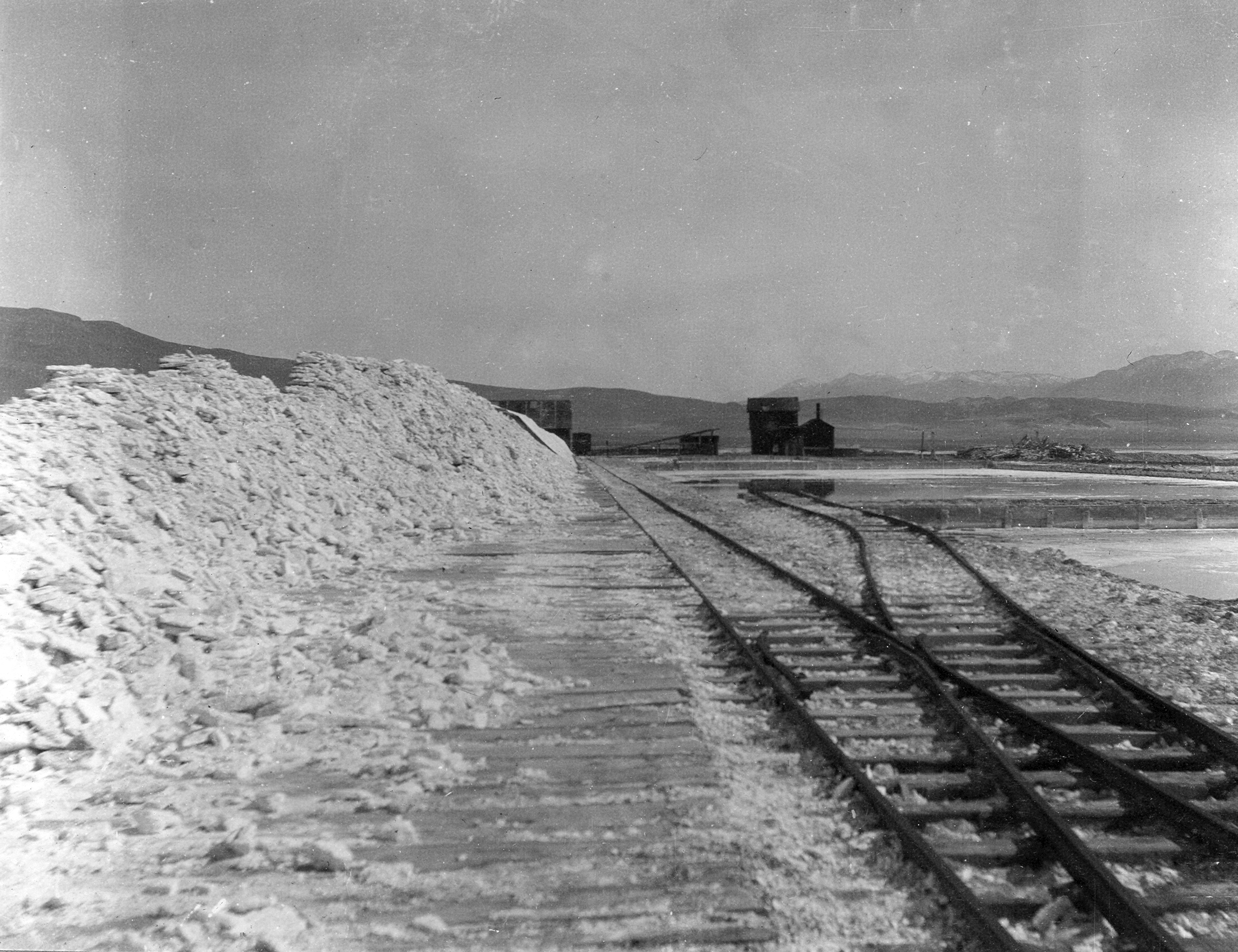 Soda works at Keeler at Owens Lake, California. Pile of carbonate of soda ready for the marker.